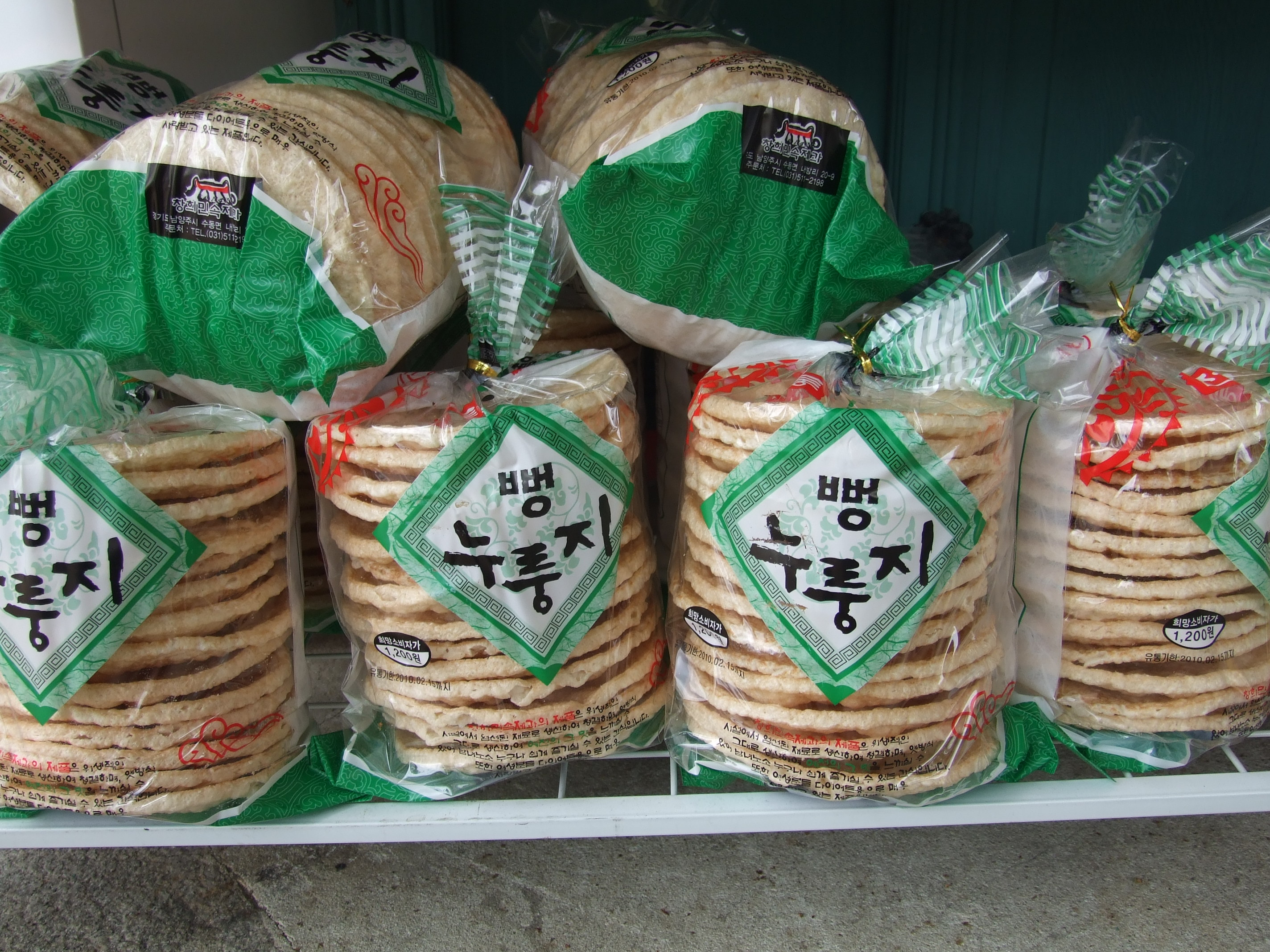 Nurungji sold in packages